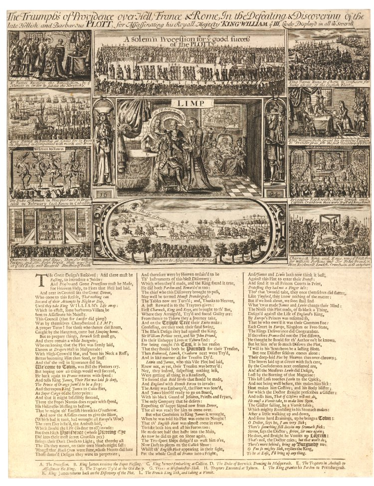 Broadsheet from the Jacobite assassination plot 1696, The Triumphs of Providence over Hell, France & Rome, In the Defeating & Discovering of the late Hellish and Barbarous Plott, for Assassinating his Royall Majesty King William the III.